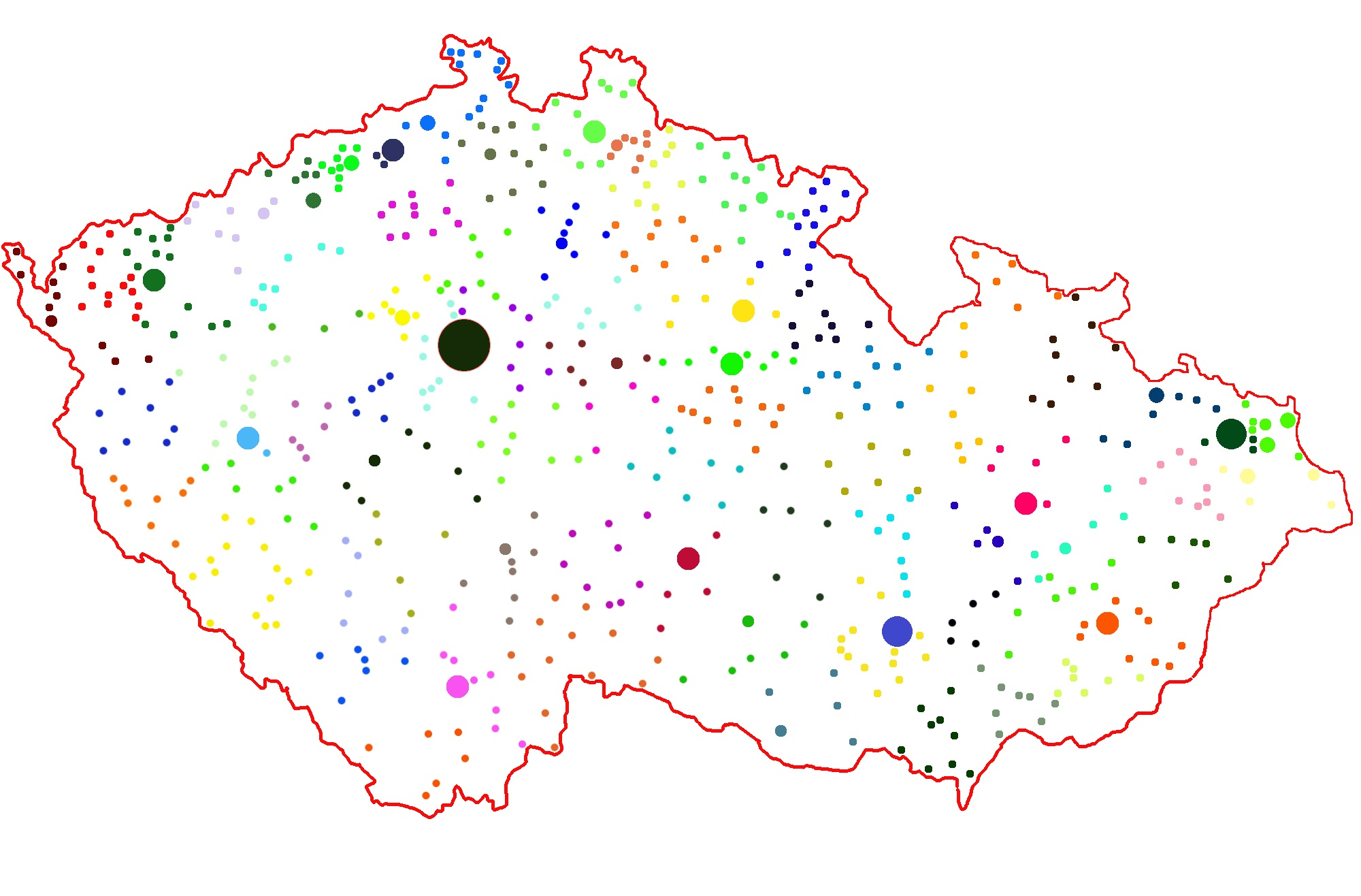 Towns and cities of the Czech Republic. Each color represents a different "okres" (district). Note to the size of the dotes: Prague, Brno and Ostrava are approximately in its real size ratio. Seats of regions (kraj) something bigger, the same like towns greater than 50 000 inhabitants (stand: 2008!) and 30-50 000 inhabitants (2008!); there should be, however, all 594 towns and cities as in 2010.